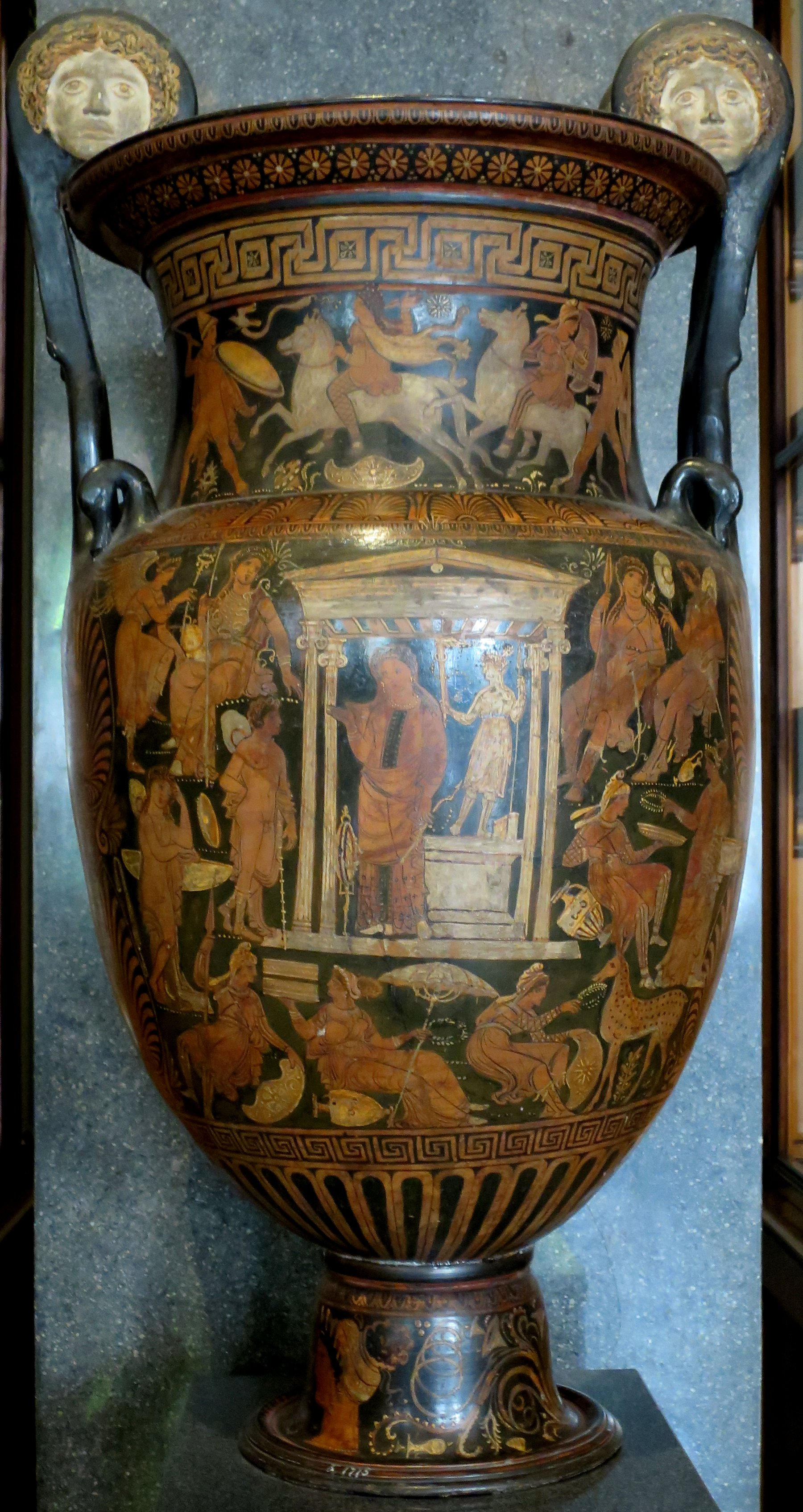 Red figure volute krater with abduction of Iphigenia